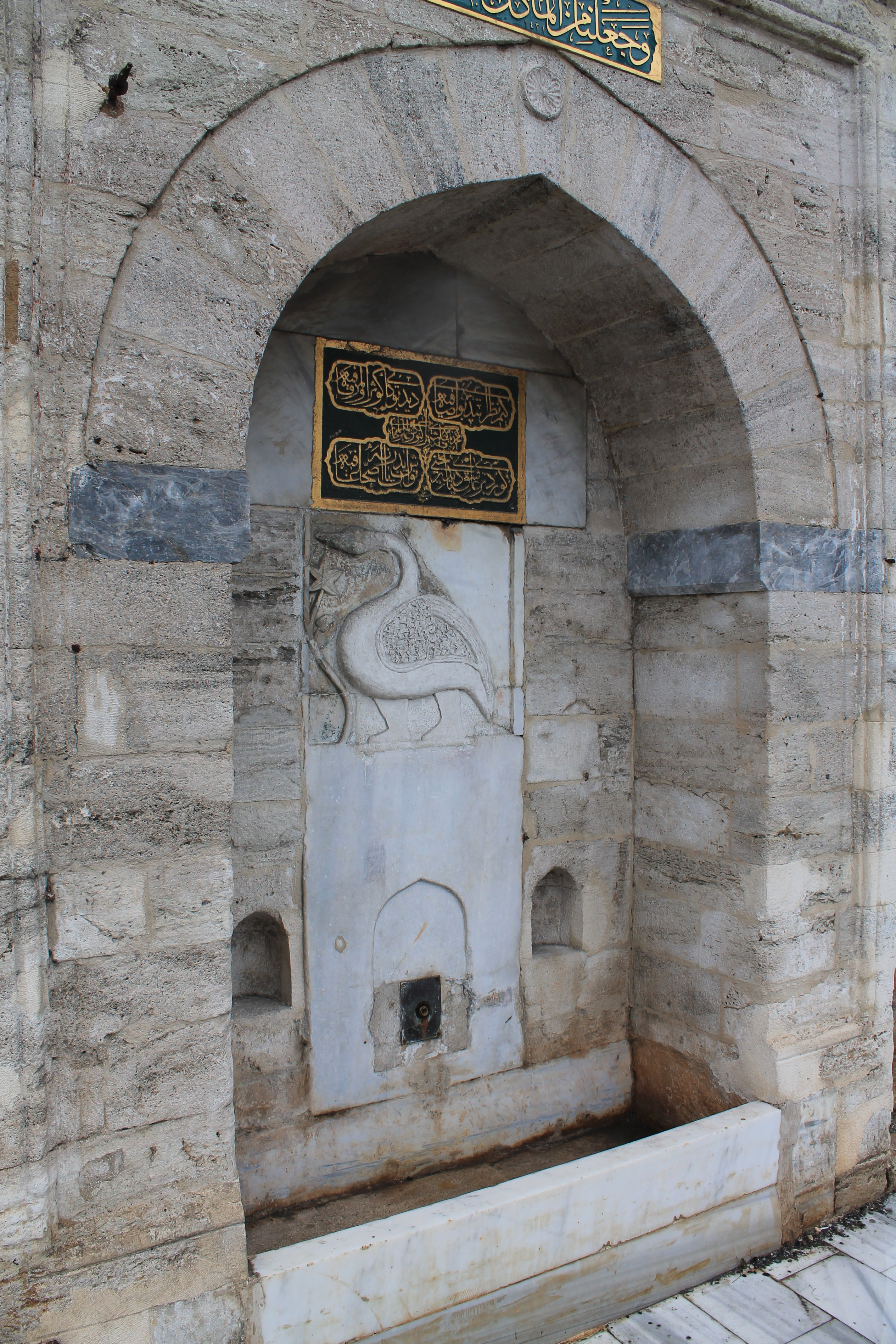 Kazlıçeme fountain, Zeytinburnu